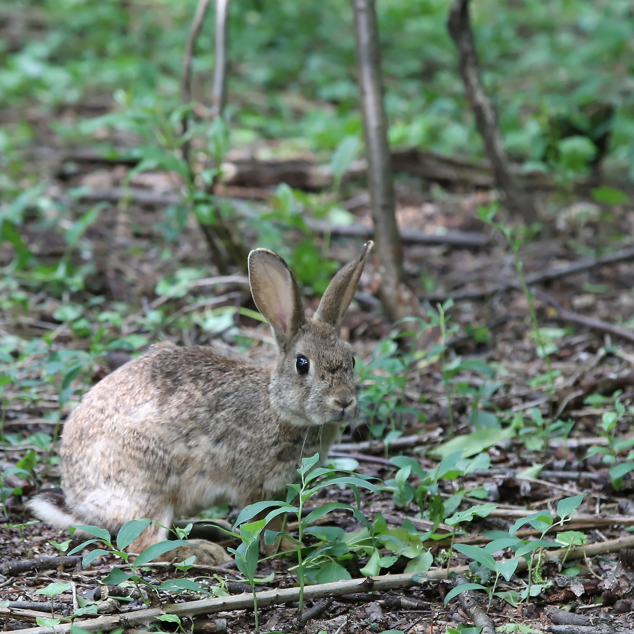 Close-up of wild rabbit in Parco Alto Milanese, Legnano, Lombardy, Italy, on May 2nd, 2015